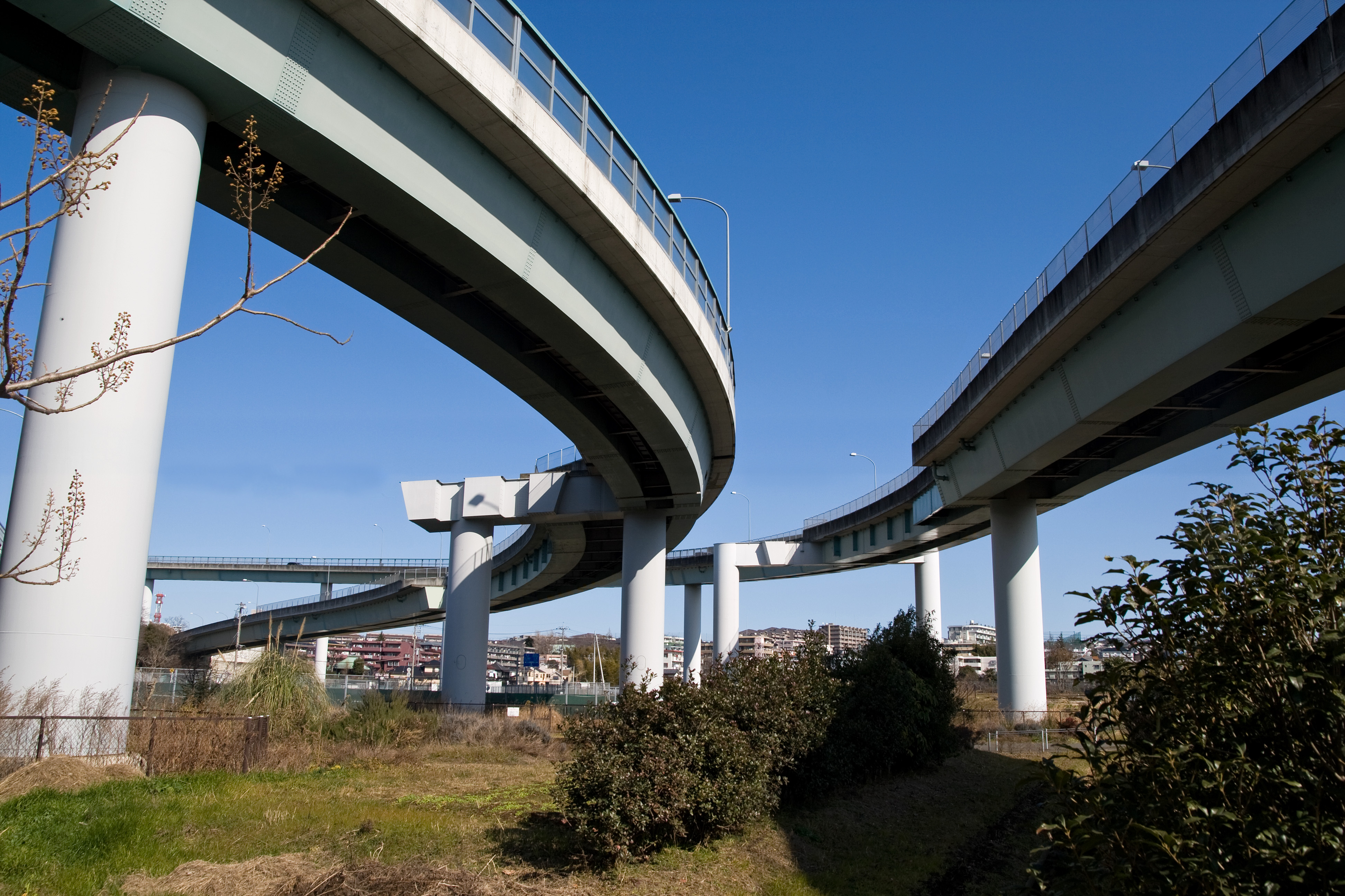 Yokohama-Aoba Interchange on Tōmei Expressway, in Aoba-ku, Yokohama City, Kanagawa Prefecture, Japan